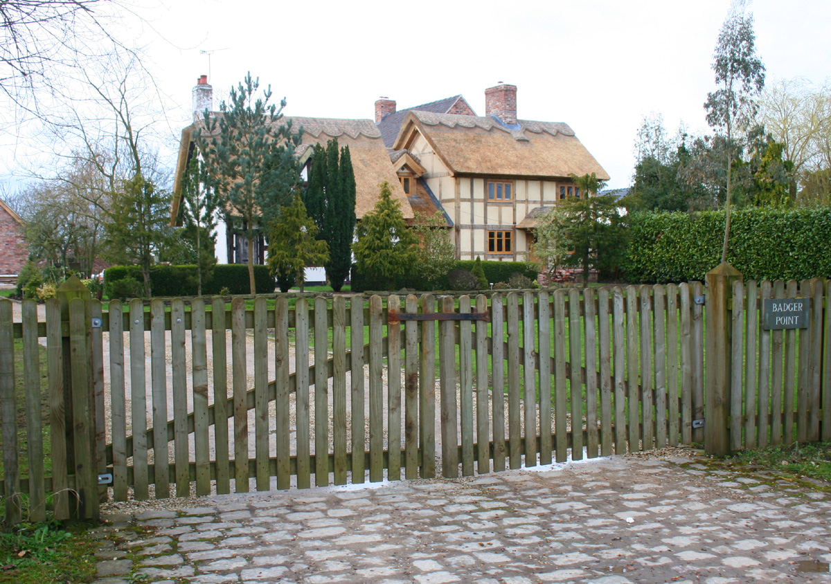 Grade-II-listed timber-framed cottage by the plant nursery in Poole. The wing on the left dates from the mid-17th century, but the remainder of the building seems to have been added since 2001